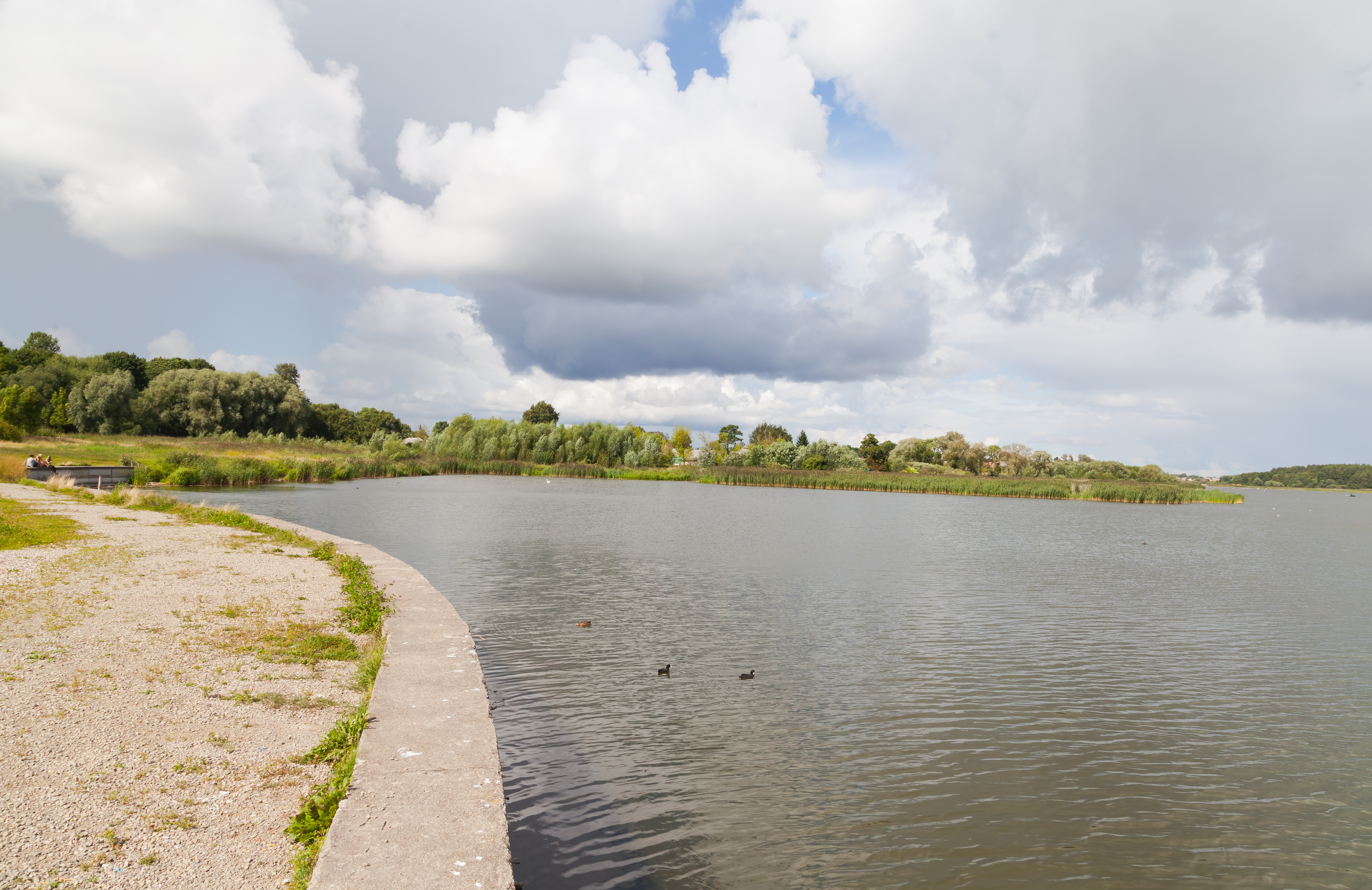 Talsa lake, Siauliai, Lithuania